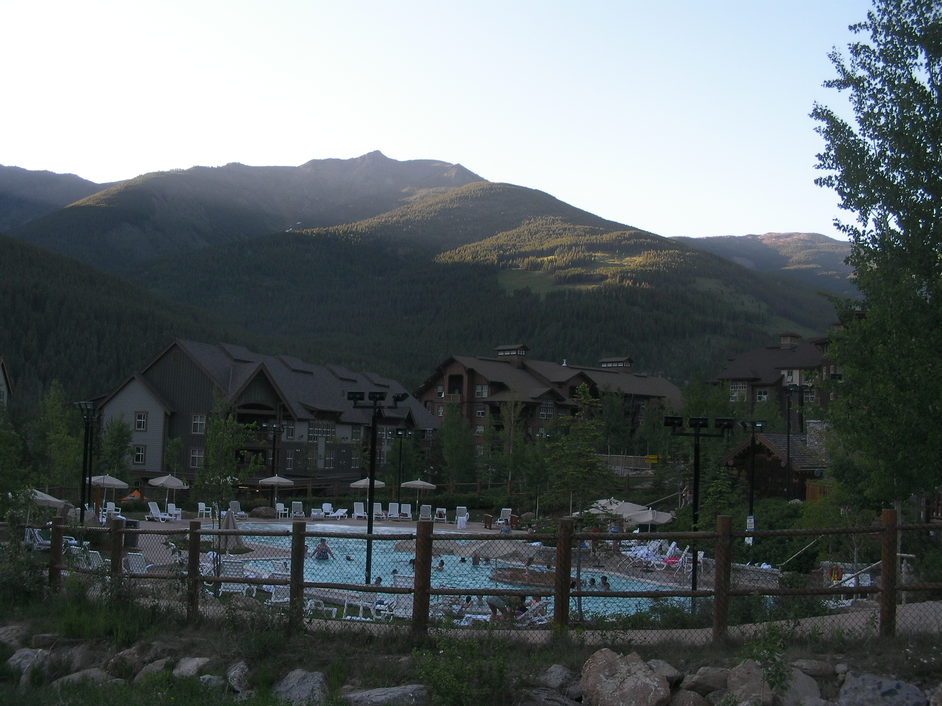 Panorama Mountain Village, British Columbia, hot springs pools